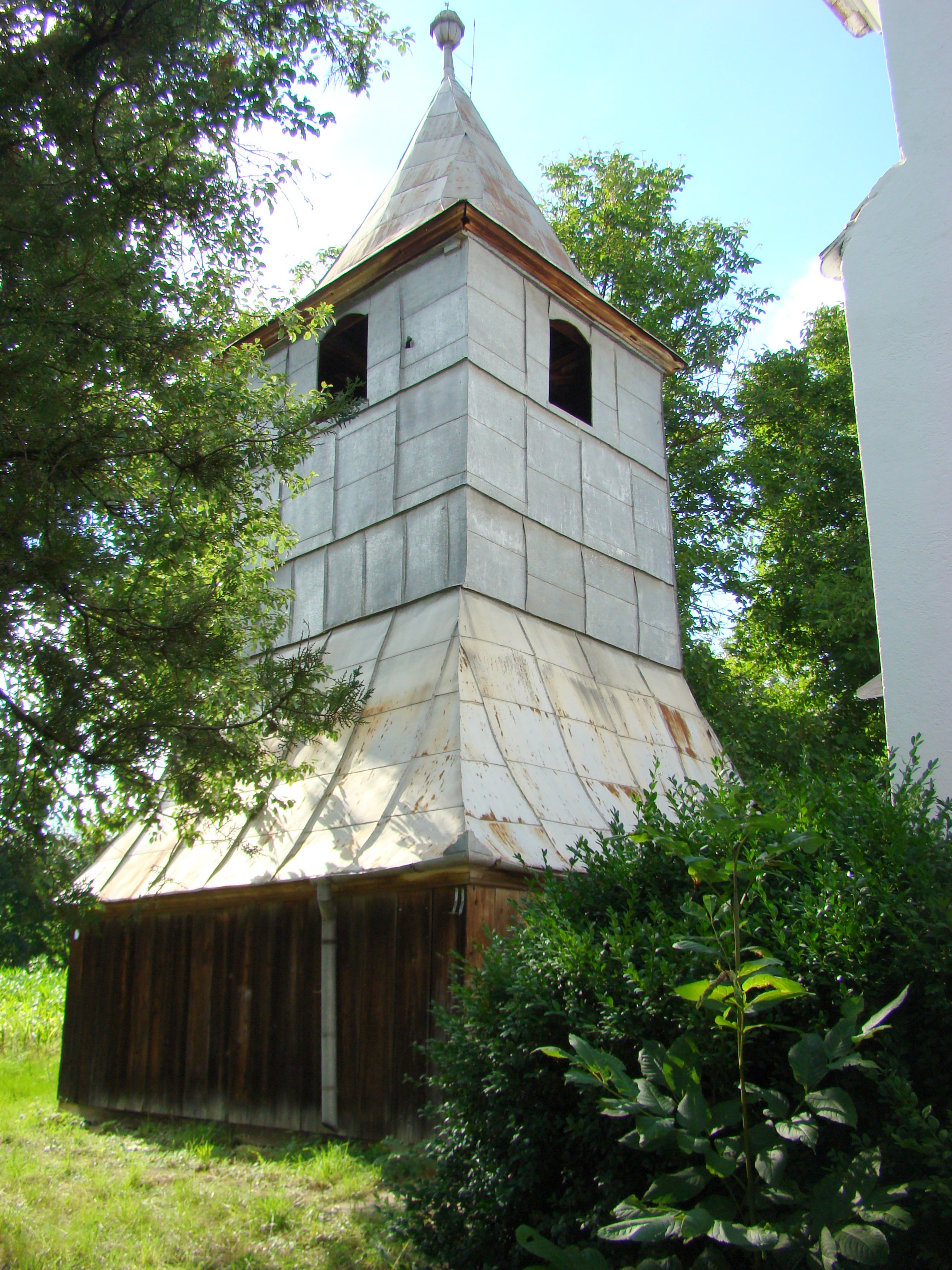 The belfry of the reformed church in Fântânița, Bistrița-Năsăud county, Romania